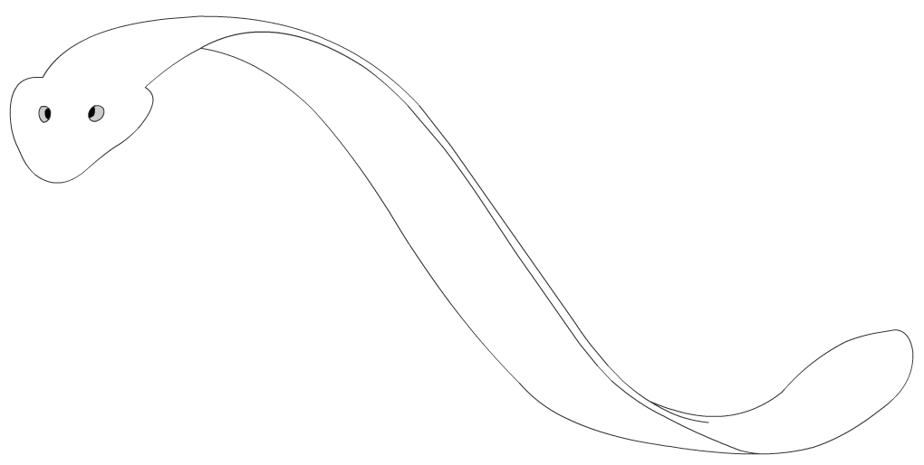 Side view of a flatworm.